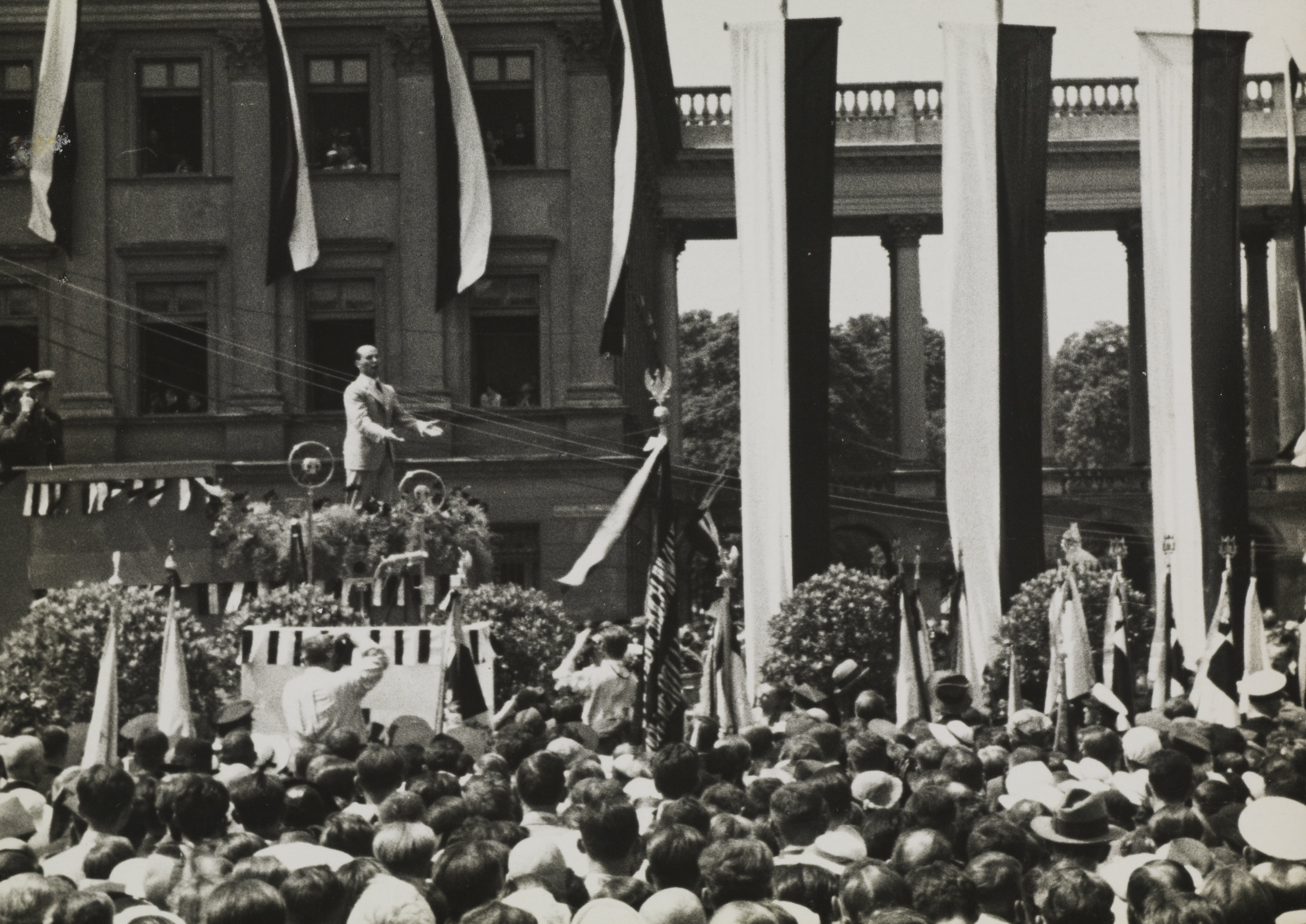 Jan Kiepura - występ na pl. Piłsudskiego w Warszawie, 1936 r.